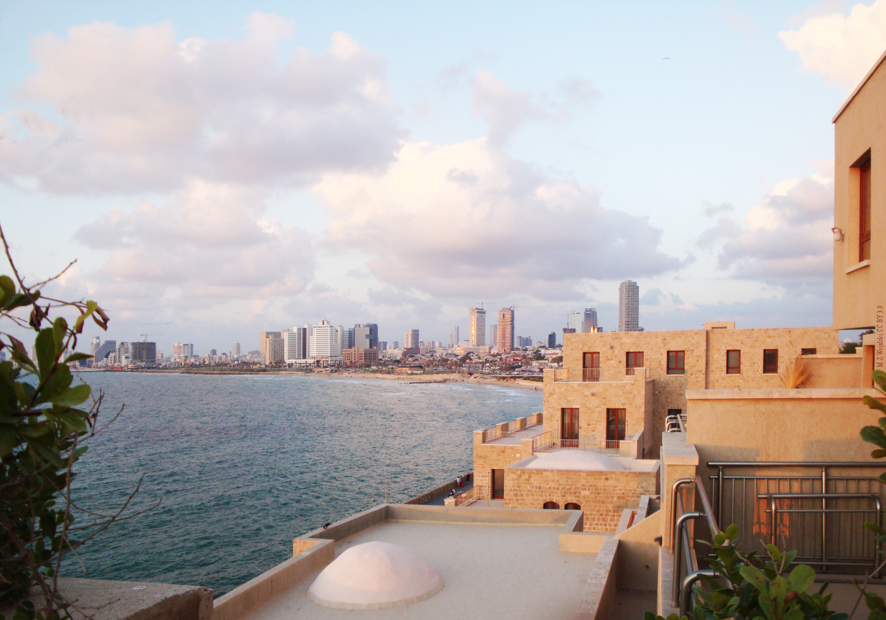 Panorama of Tel-Aviv from Jaffa 2010